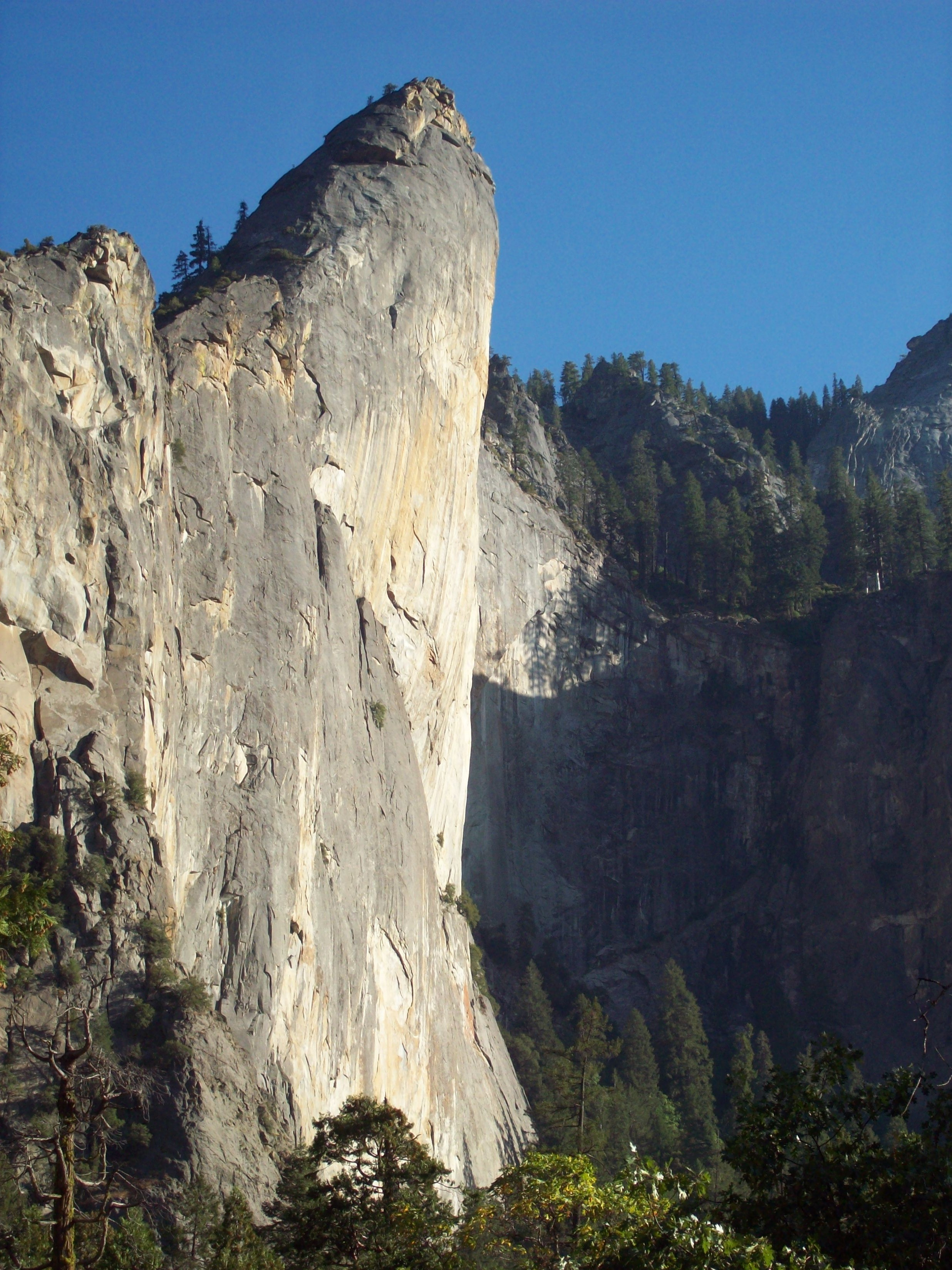 The sharply overhanging 1000 foot face of the Leaning Tower, near Bridalveil Falls in Yosemite Valley